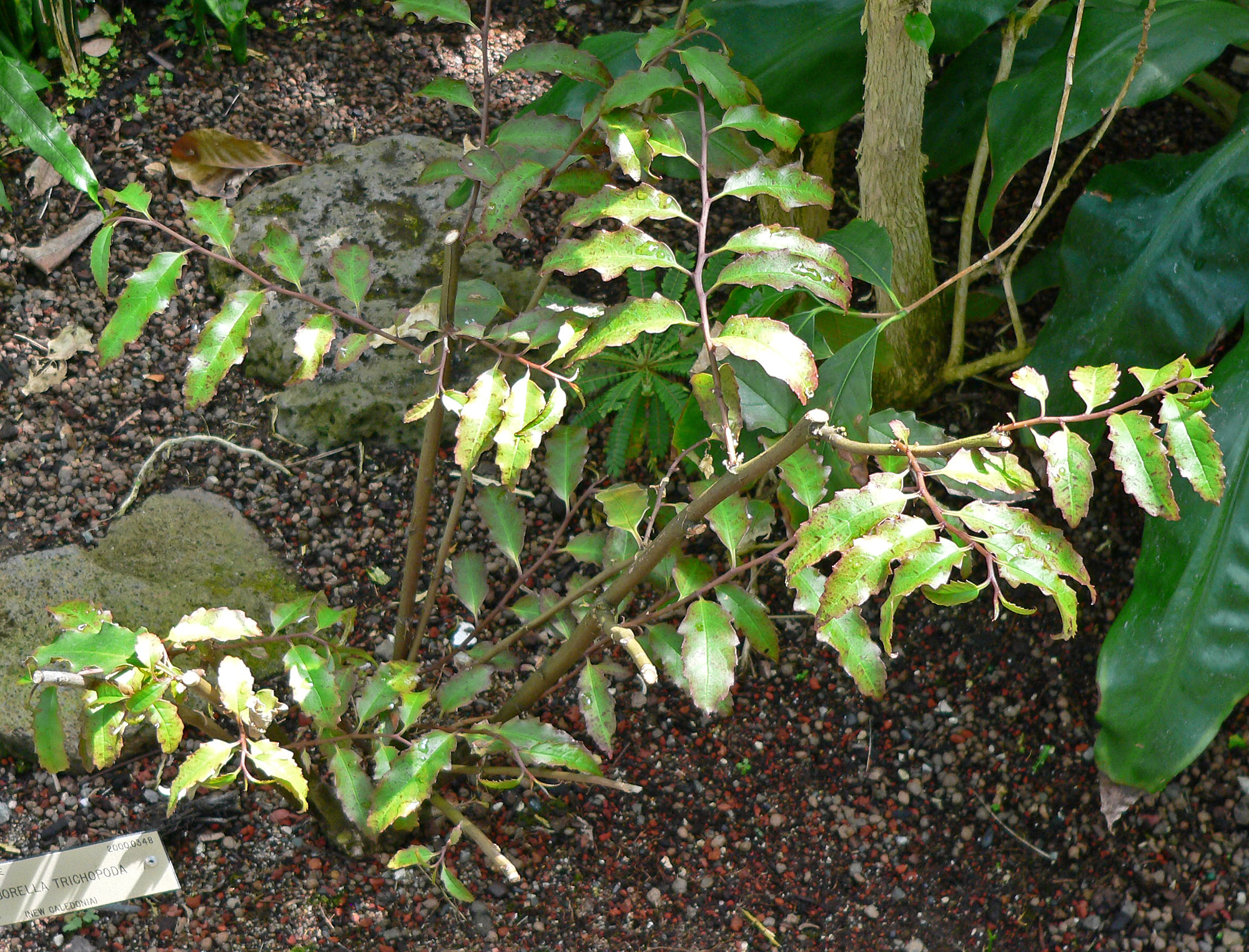 Amborella trichopoda at the University of California Botanical Garden, Berkeley, California